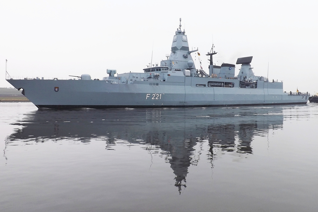 F221 FGS Hessen, a Sachsen-class Frigate of the German Navy